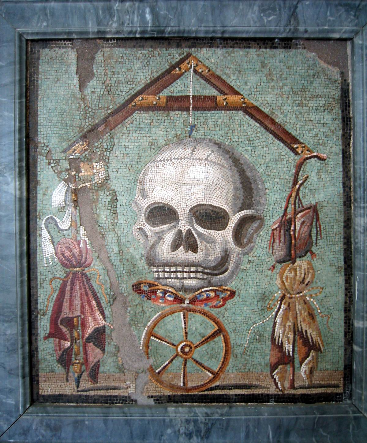 Roman mosaic representing the Wheel of Fortune which, as it turns, can make the rich (symbolized by the purple cloth on the left) poor and the poor (symbolized by the goatskin at right) rich; in effect both states are very precarious, with death never far and life hanging by a thread: when it breaks, the soul (symbolized by the butterfly) flies off. And thus are all made equal.